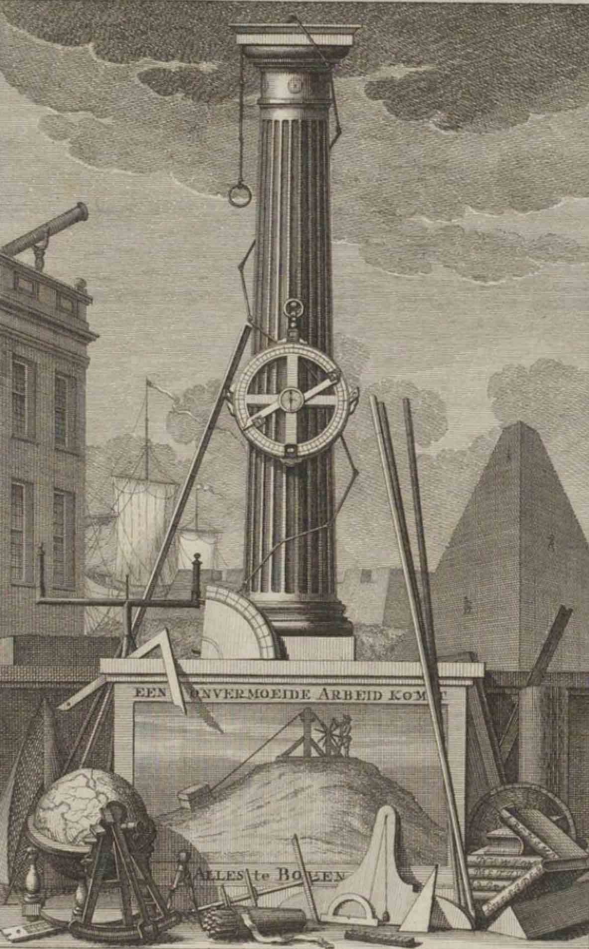 Frontispiece Dutch Mathematical Society 1779